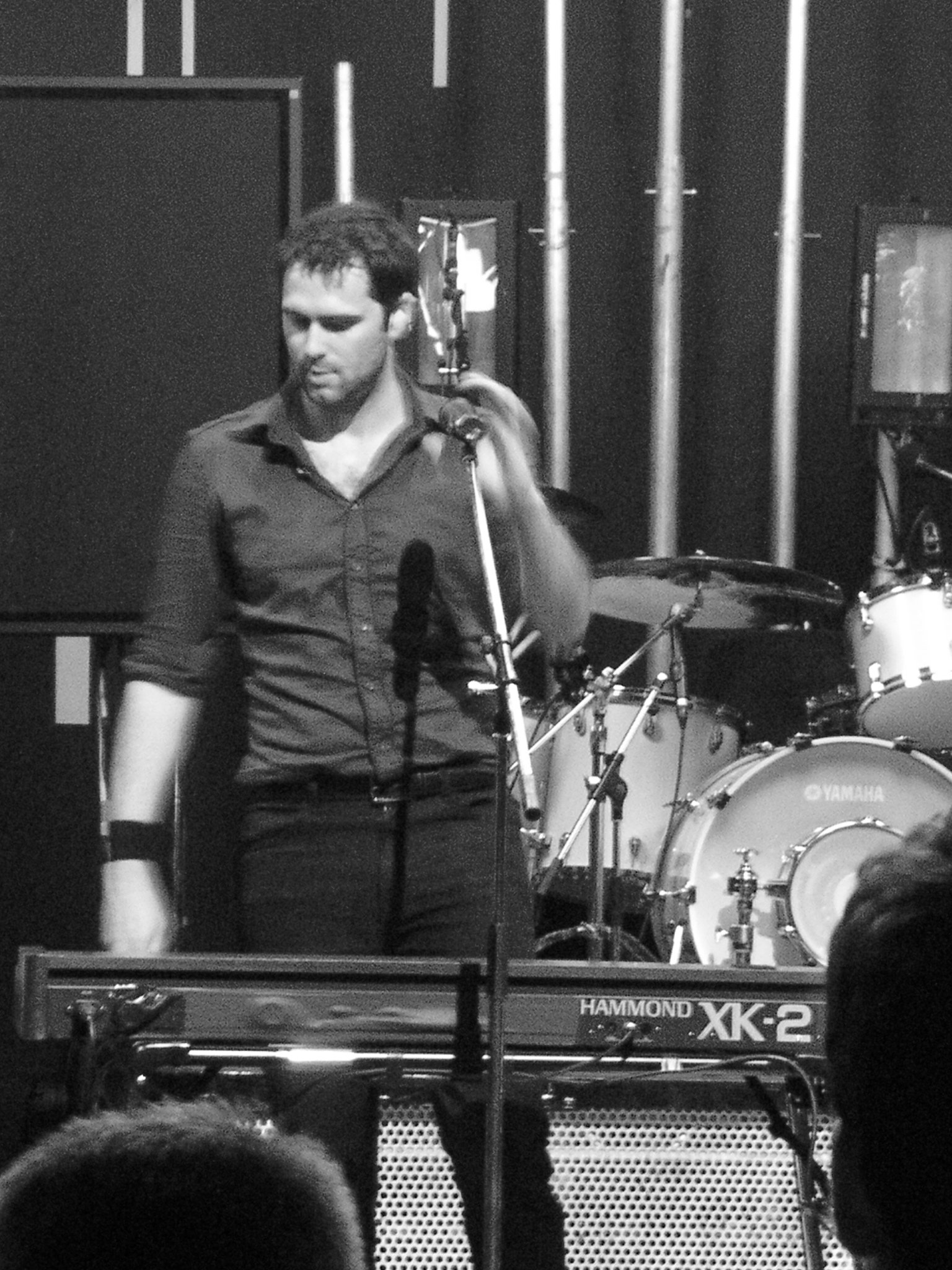 Tim Rice-Oxley